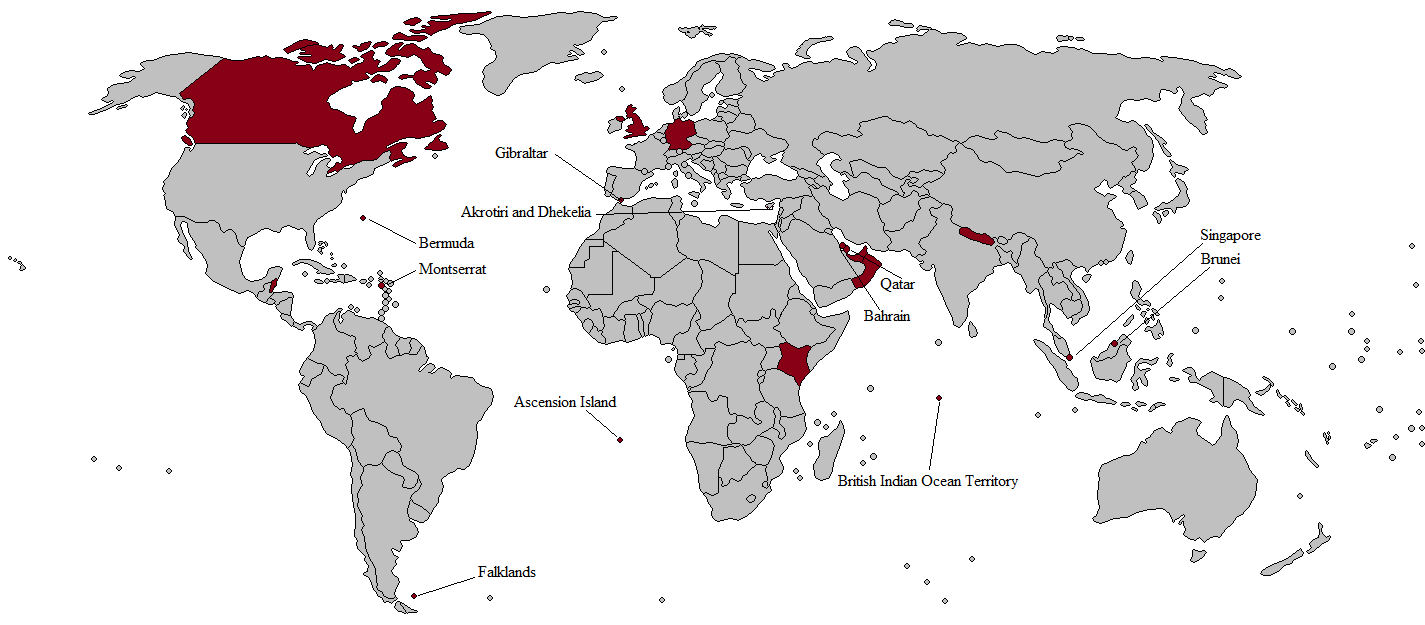 A map showing the United Kingdom and her military bases and/or facilities worldwide.